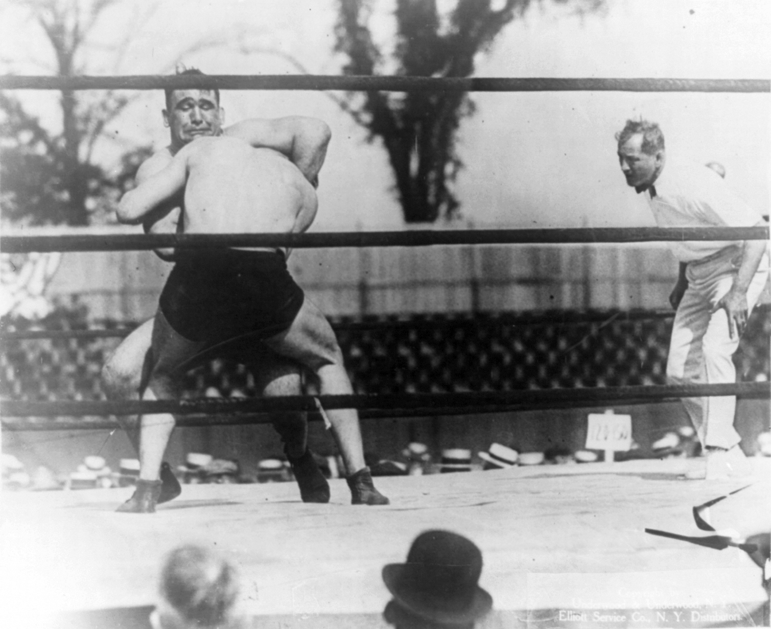 Ed "Strangler" Lewis defeats Cossack giant. Lewis is seen applying the deadly headlock to Ivan Linow at the International Championship Wrestling Tournament.